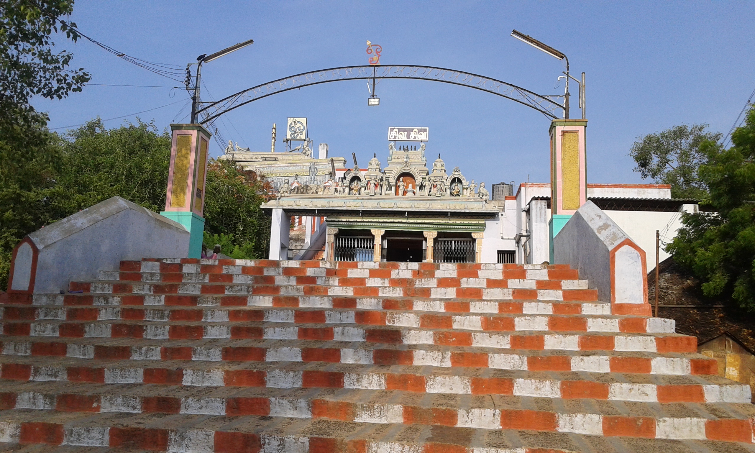 Thiruthankal